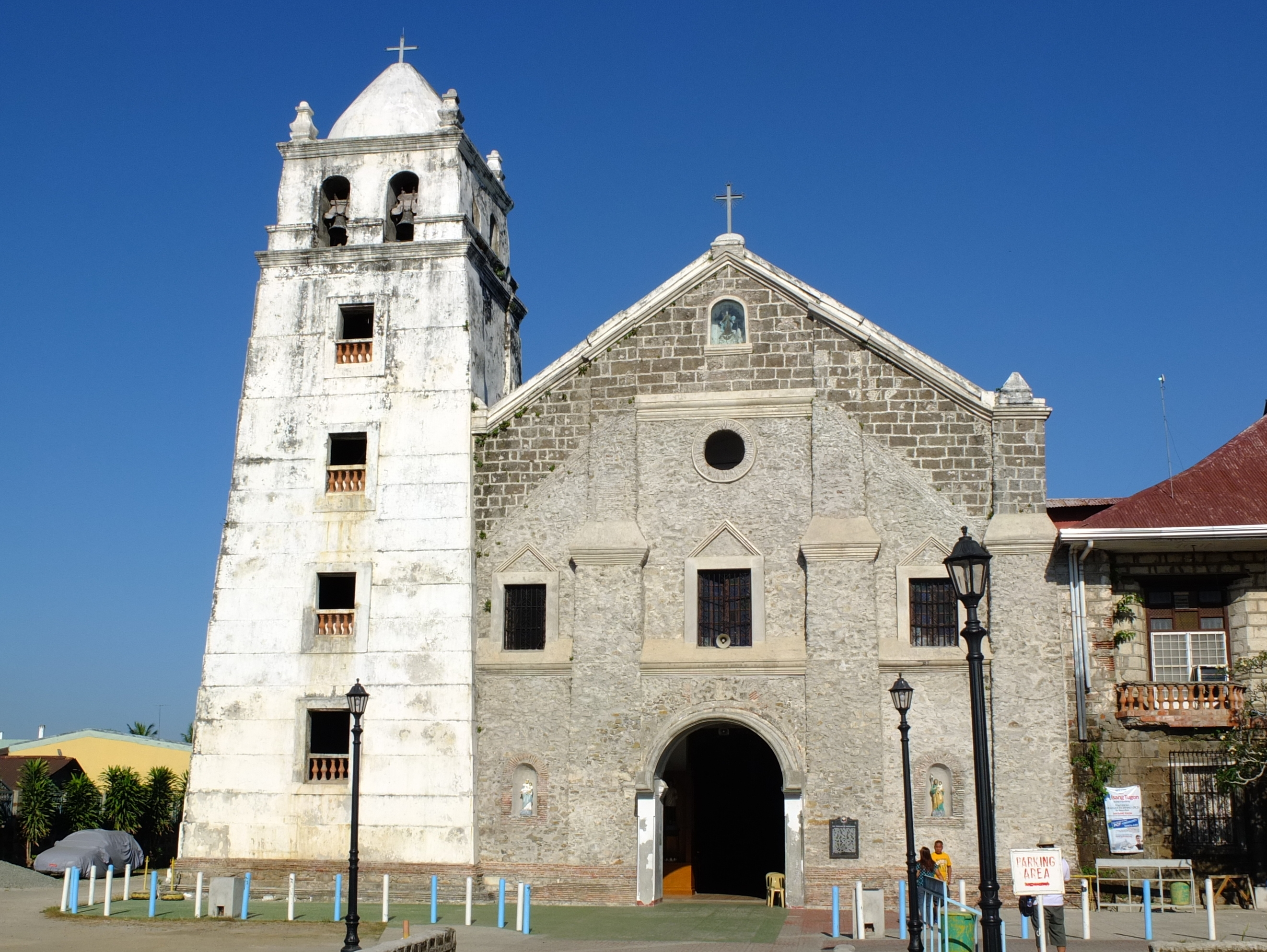 Facade of Maragondon Church